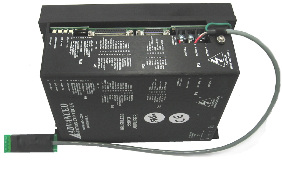 Advanced Motion Controls brushless servo amplifier with armature cable